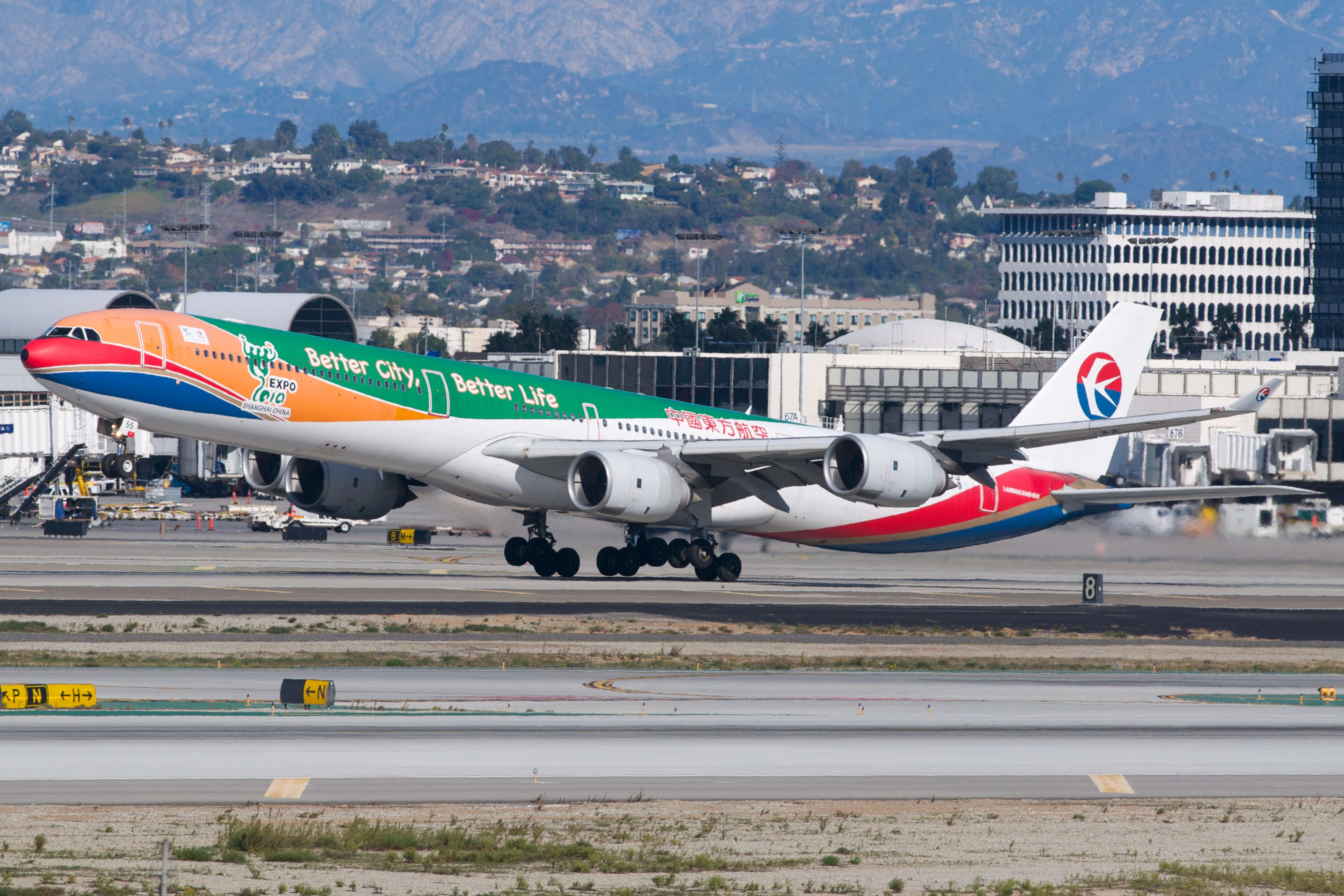 Better City, Better Life Expo 2010 Shanghai special scheme. Rotating LAX.